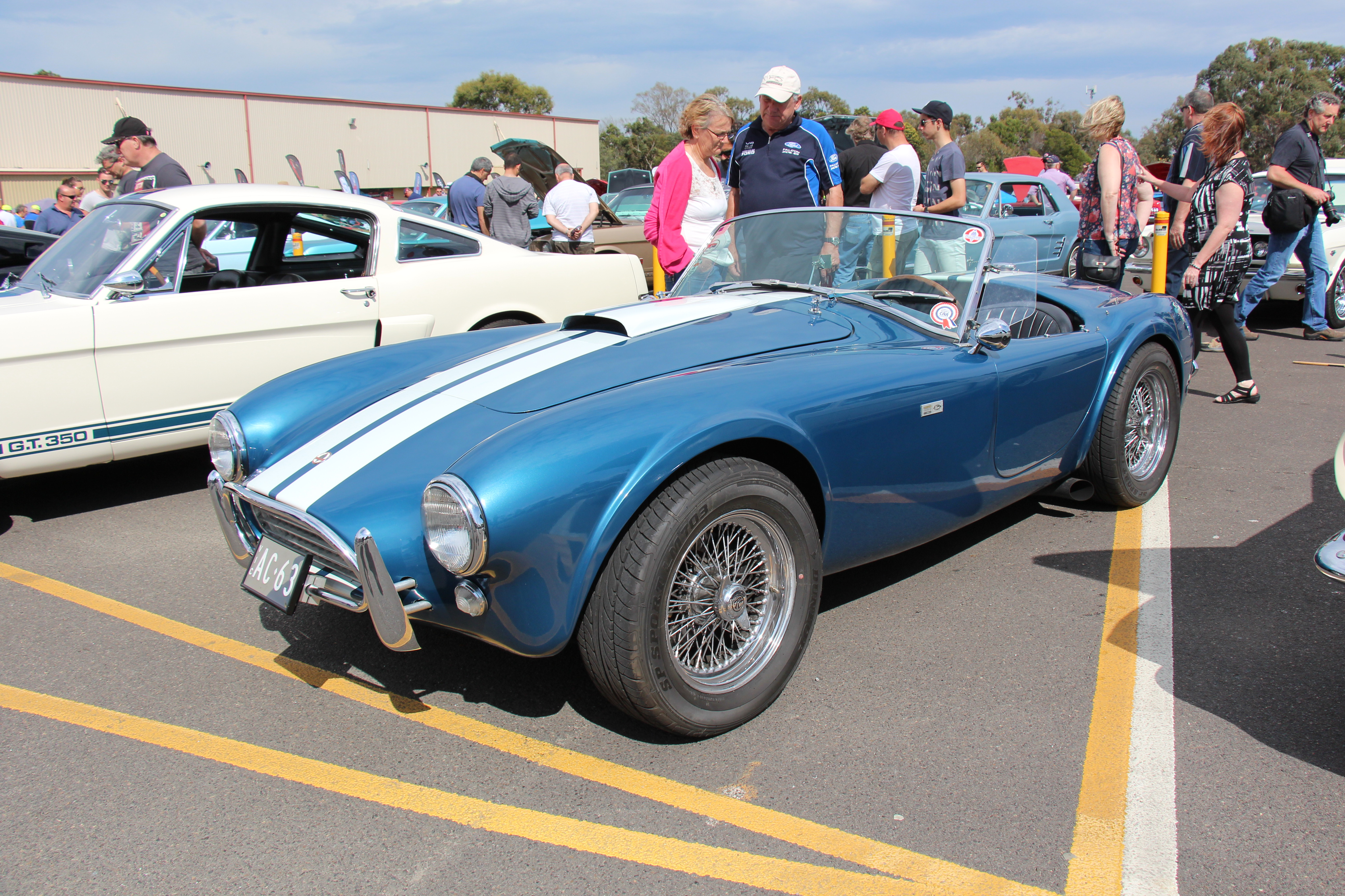 CSX2105; C; Cobra S; Shelby X; Export, 2; Mk II, No 105 of 528 AC, an English company, started building the Ace in 1953 with the Bristol 6 cyl engine, when production of this engine ceased in 1961, they used the 2600cc Ford Zephyr engine but with alloy head and triple weber carbs, this proved unreliable so went to Carroll Shelby in America and then started using Ford V8s. . So the first AC Cobra, the Mk I, had the 260 cu in Ford V8, 75 were made and in 1963 a further 51 were built with the 289 The 1963-65 Mk II got rack and pinion steering, and the 289 V8, 528 were made To become more competitive with the Corvette, the 1965-67 Mk III got the big block 427 cu in Ford V8, a new chassis, coil suspension all round, wider fenders and wider radiator opening. 300 were made with the 427 (27 narrow fender 289s were also built) Ford and Shelby pulled out in 1967, AC kept building cars for a few more years Many companys world wide have been making relicas of this popular Roadster ever since.